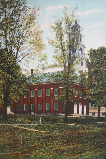 South Congregational Church, Newport, New Hampshire. Designed by Elias Carter, it was built in 1823.